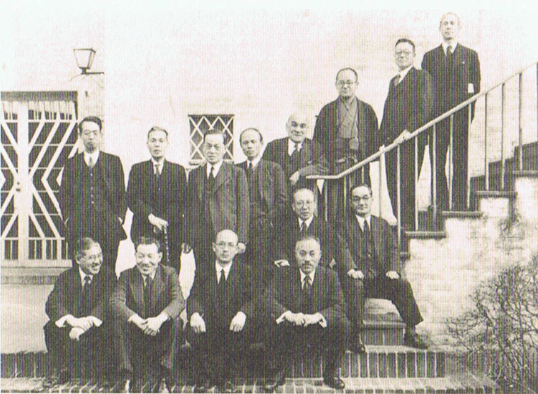 1940 United Church of Christ in Japan